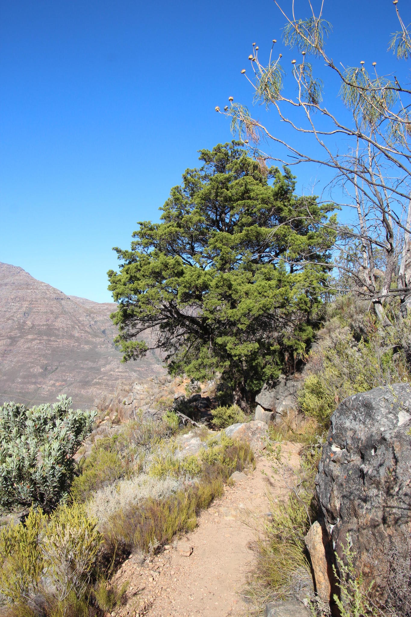 Clanwilliam cypress (Widdringtonia wallichii)